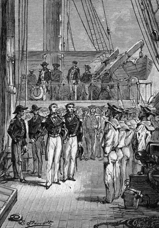 An illustration from Jules Verne's novel "The Archipelago on Fire" drawn by Léon Benett.